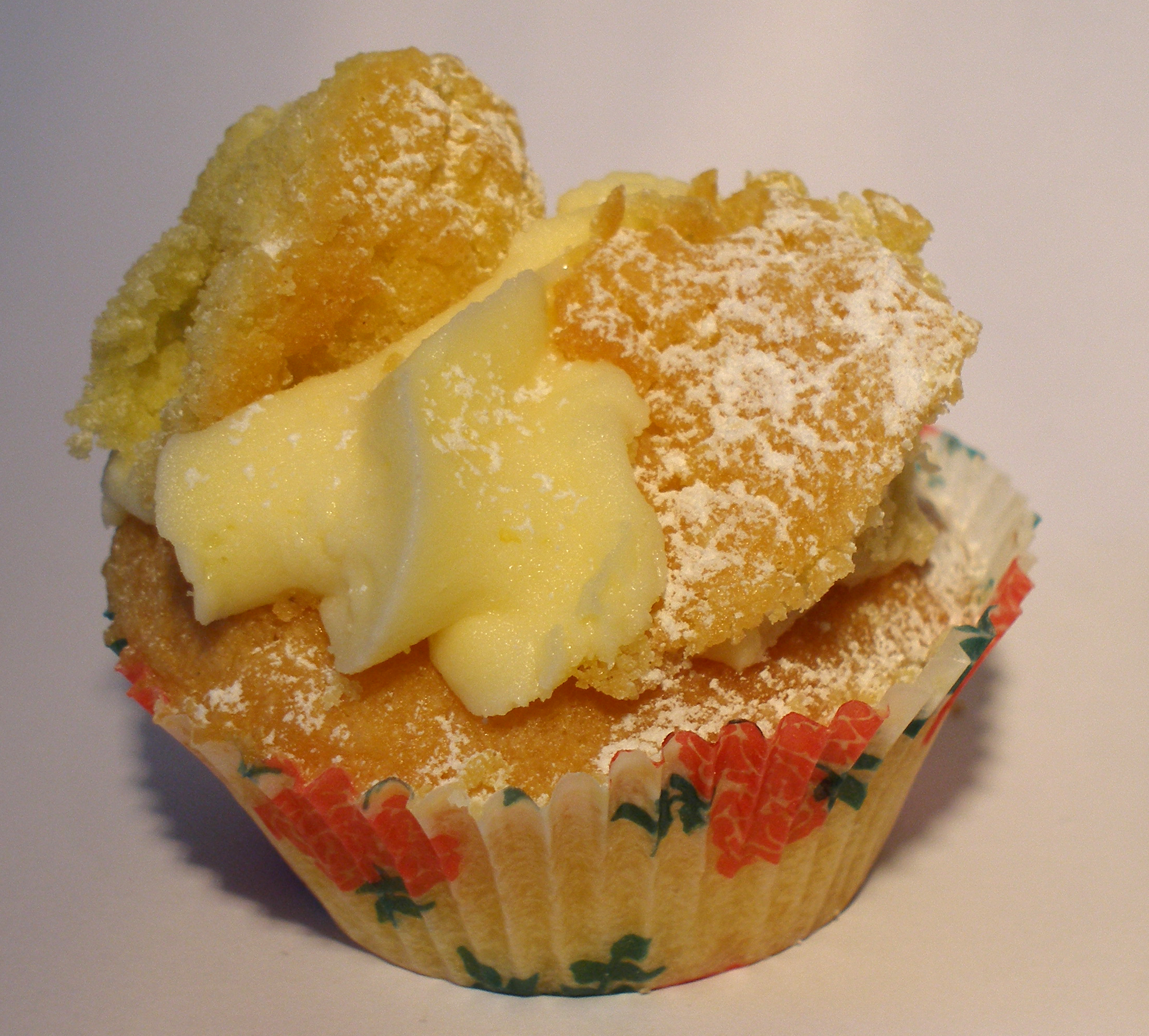 Butterfly Cake, photographed by me on 1st August 2007